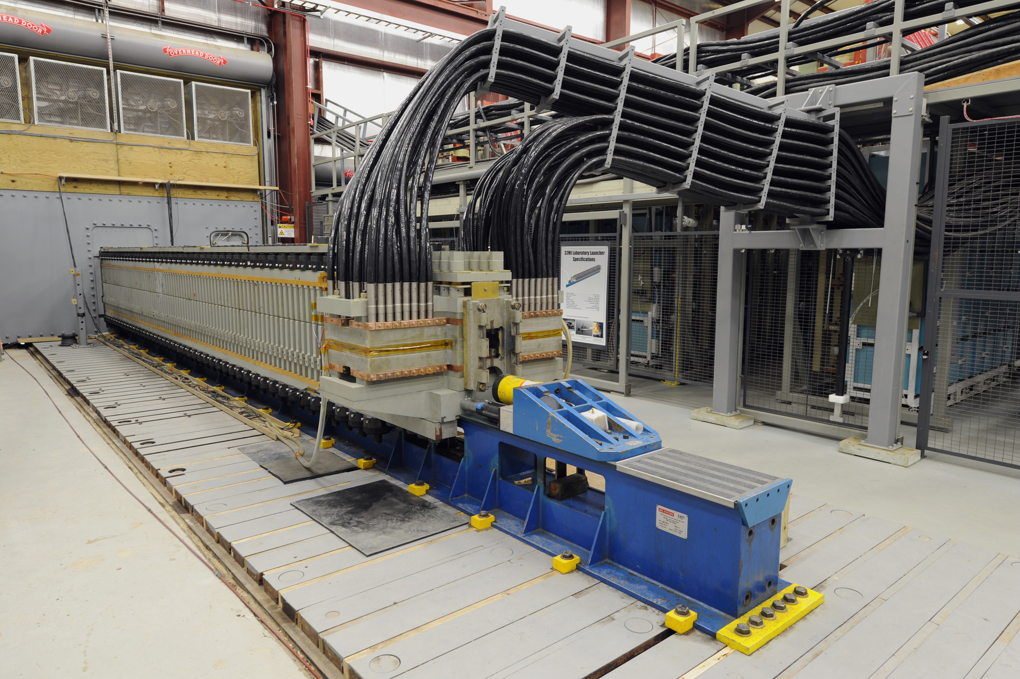 DAHLGREN, Va. (Dec. 10, 2010) The Office of Naval Research Electromagnetic Railgun located at the Naval Surface Warfare Center Dahlgren Division, fired a world-record setting 33 mega-joule shot, breaking the previous record established Jan. 31, 2008. The railgun is a long-range, high-energy gun launch system that uses electricity rather than gunpowder or rocket motors to launch projectiles capable of striking a target at a range of more than 200 nautical miles with Mach 7 velocity. A future tactical railgun will hit targets at ranges almost 20 times farther than conventional surface ship combat systems. (U.S. Navy photo by John F. Williams/Released)